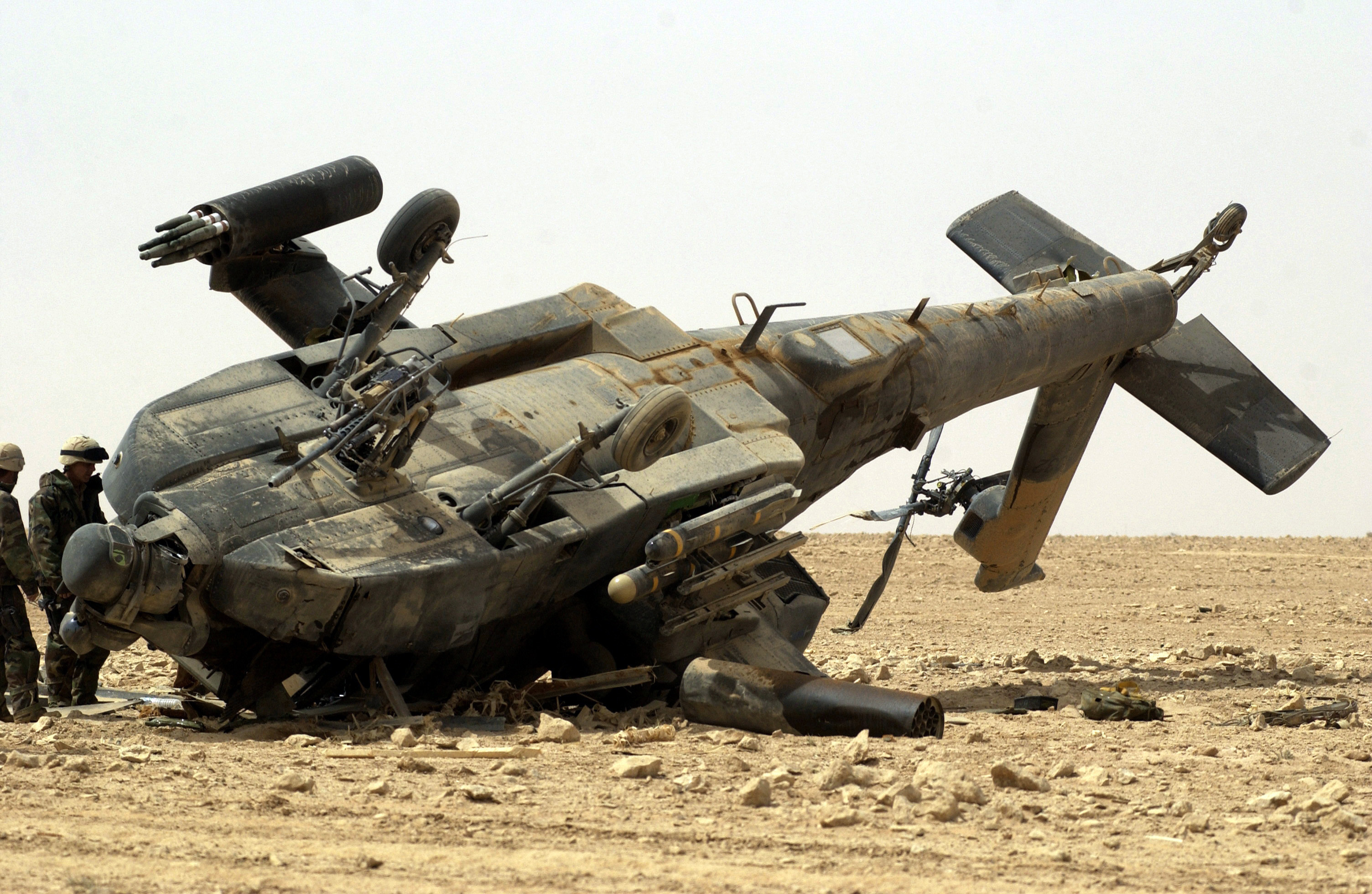 An inspection team examines a US Army (USA) AH-64 Apache helicopter that crashed during landing at Tactical Assembly Area SHELL, in Central Iraq. The helicopter is assigned to A/Company 2-101st Aviation Regiment, and was operation in support of Operation IRAQI FREEDOM.